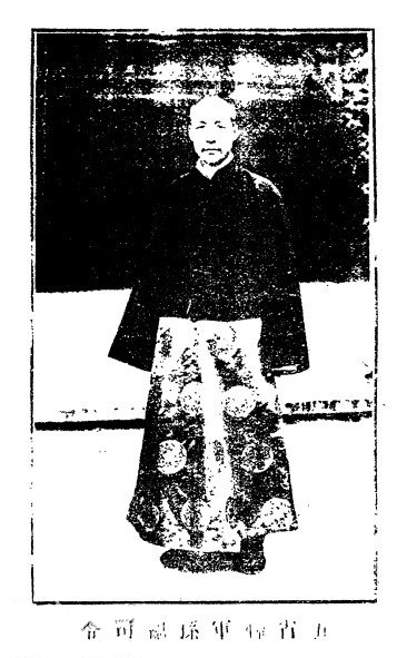 五省联军孙传芳总司令(1926年)